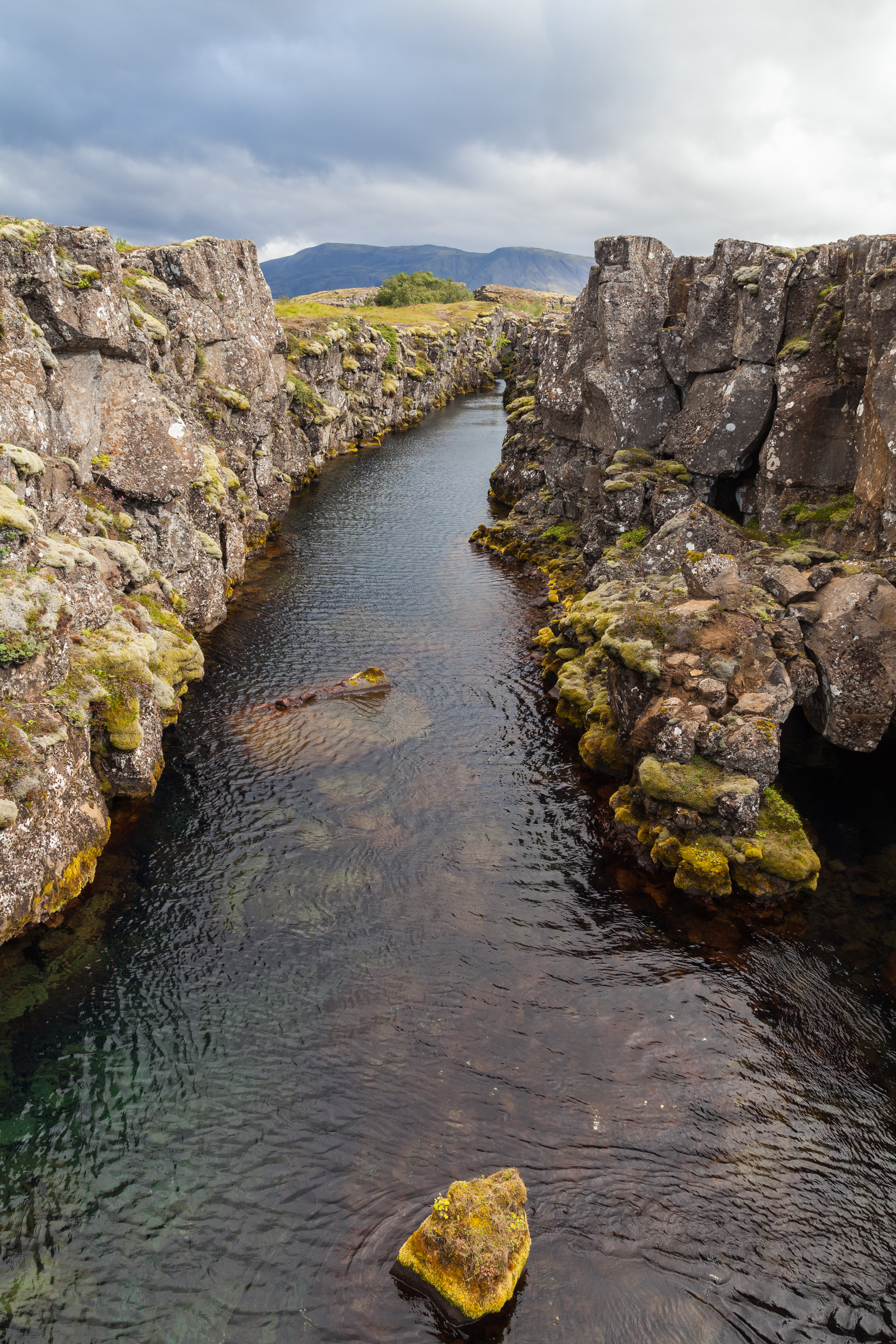 Nikulasargja canyon, Þingvellir National Park, Suðurland, Iceland